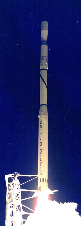 Scout X-4 launch vehicle with Explorer 30 (Solrad 8) satellite (1965 November 19).